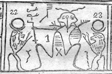 Figure No. 1 from Joseph Smith Hypocephalus published as the Facsimile No. 2 in the Book of Abraham.